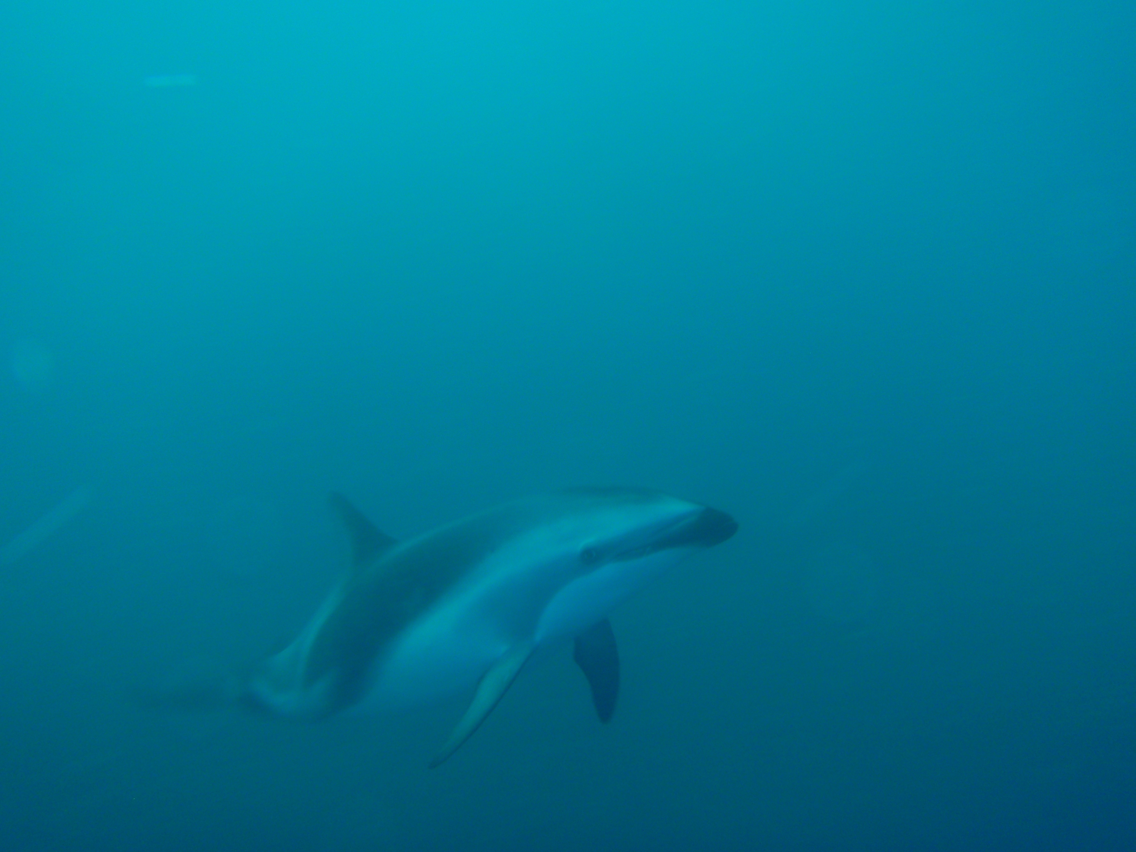 Dusky dolphin visiting at the deco stop, Hout Bay.